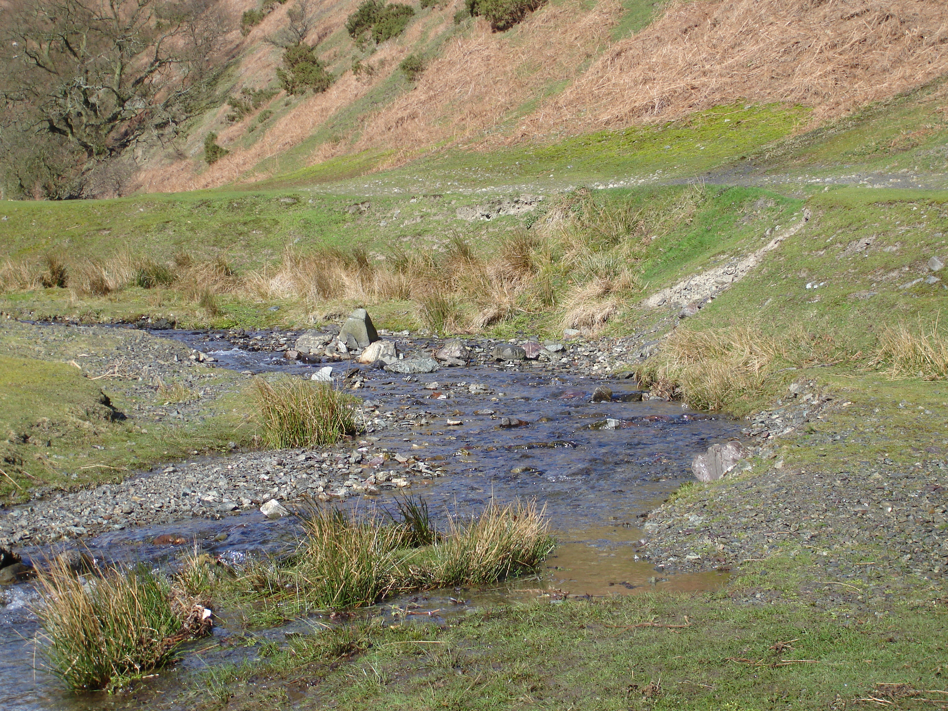 S Knights, my photo, March 2007